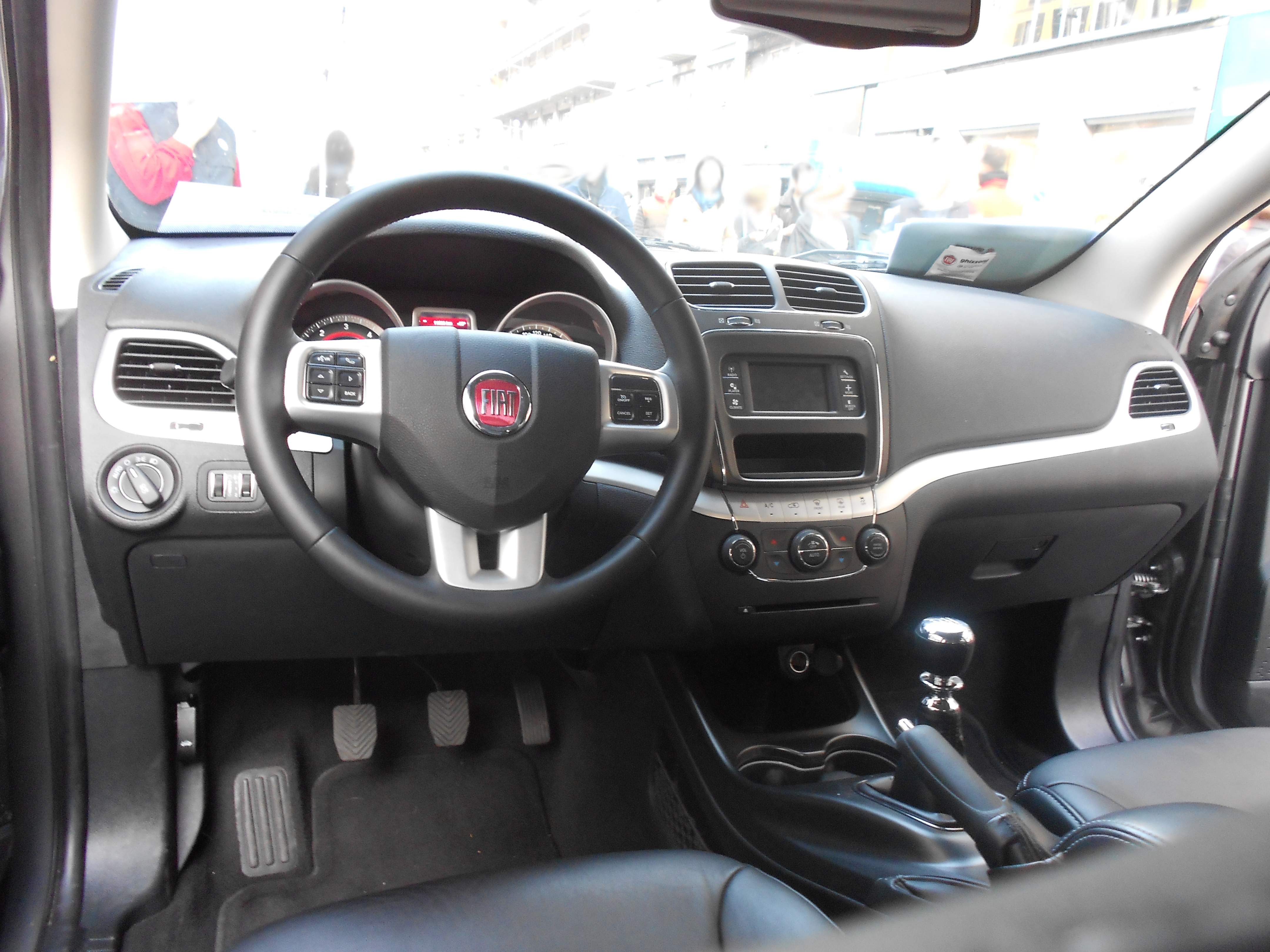 Interior Fiat Freemont